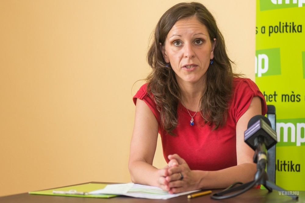 Dr. Bernadett Szél (born 9 March 1977) is a Hungarian economist and politician. She is co-President of the Politics Can Be Different (Lehet Más a Politika; LMP) party, and has been a member of the National Assembly (MP) from the party's National List since 2012.